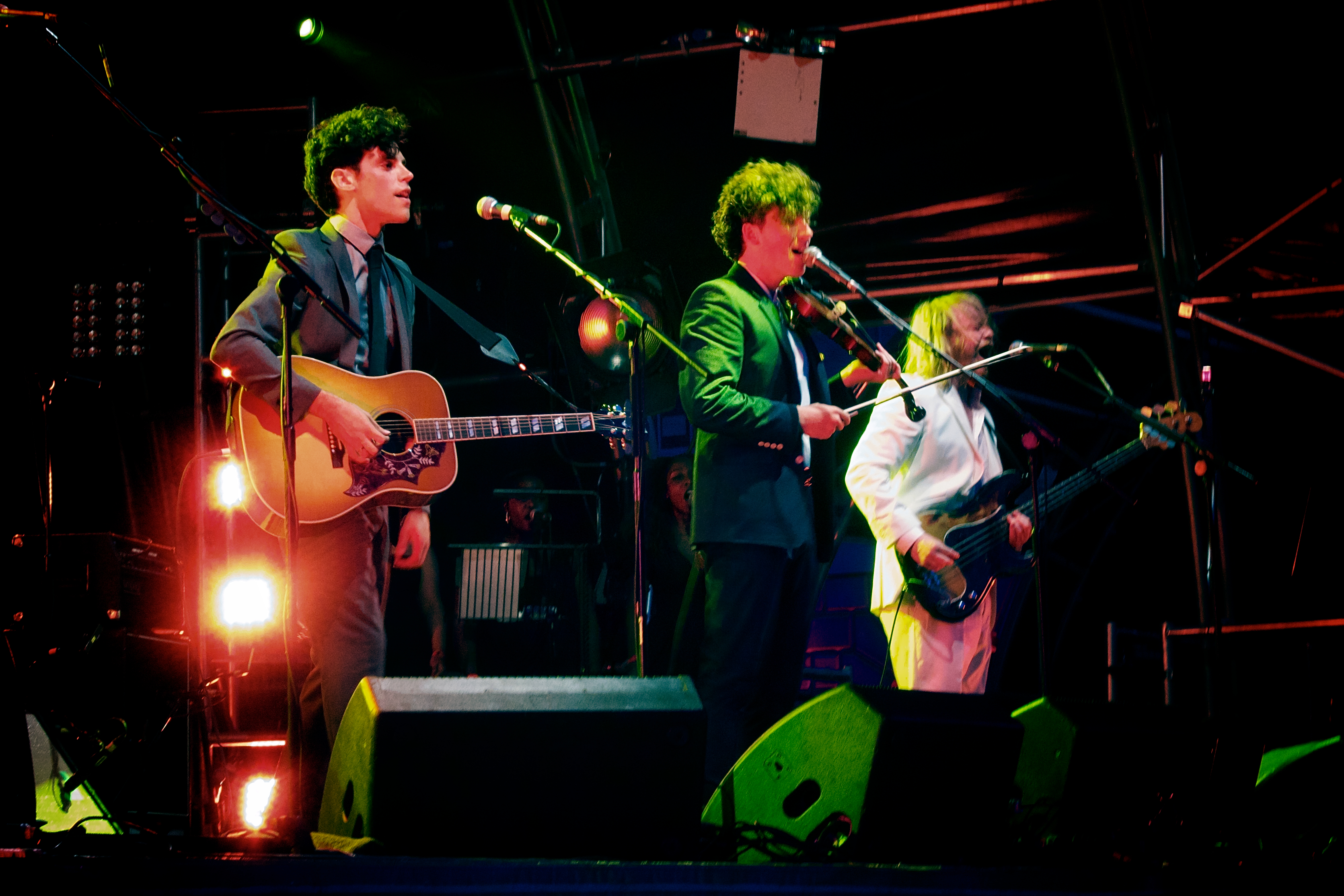 Somerset House, 10th July 2010